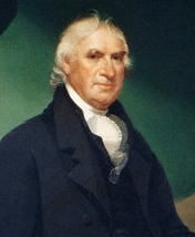 Portrait of George Clinton.